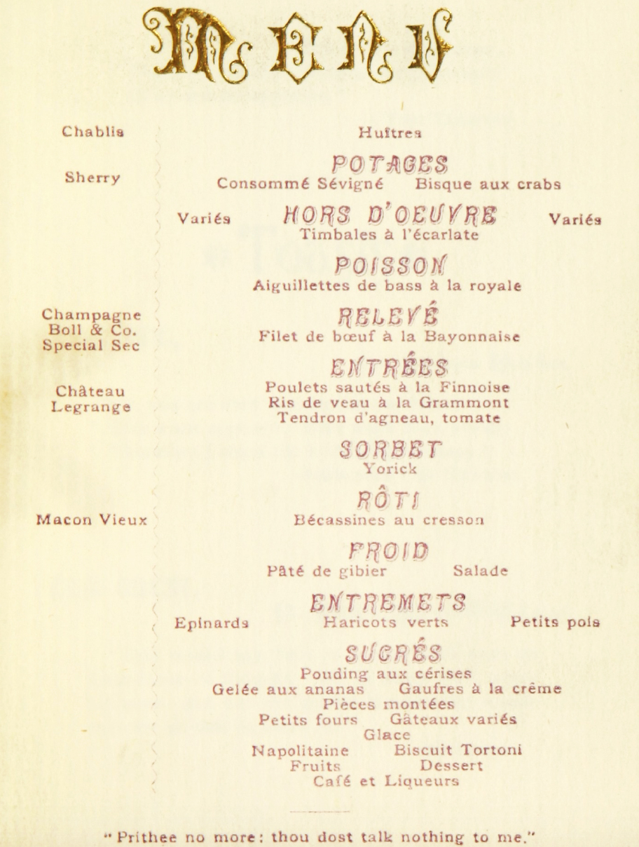 Menu of Delmonico Restaurant 12th April 1883